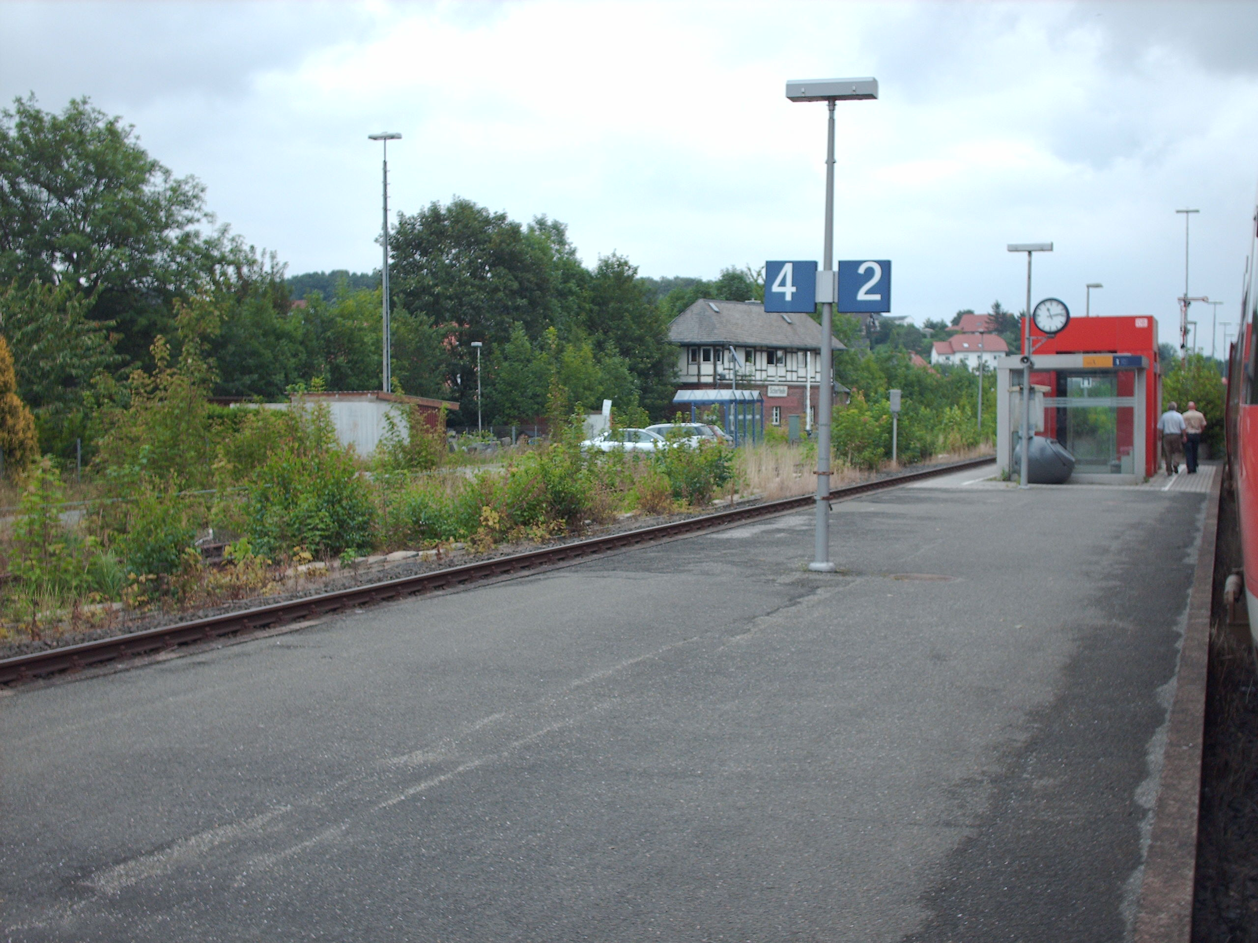 Scherfede station, Warburg, Germany check usage